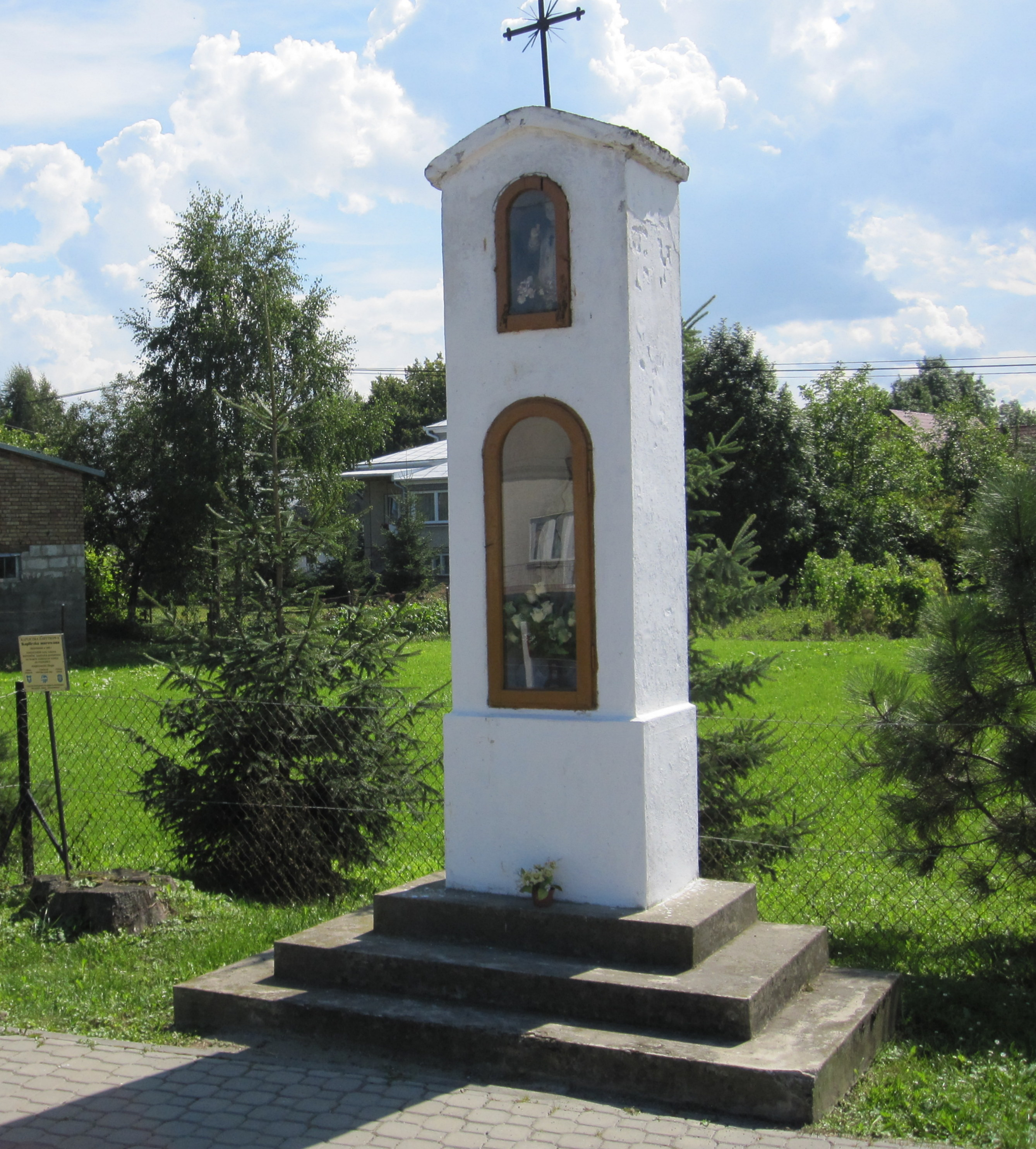 The historic chapel in the Długie village